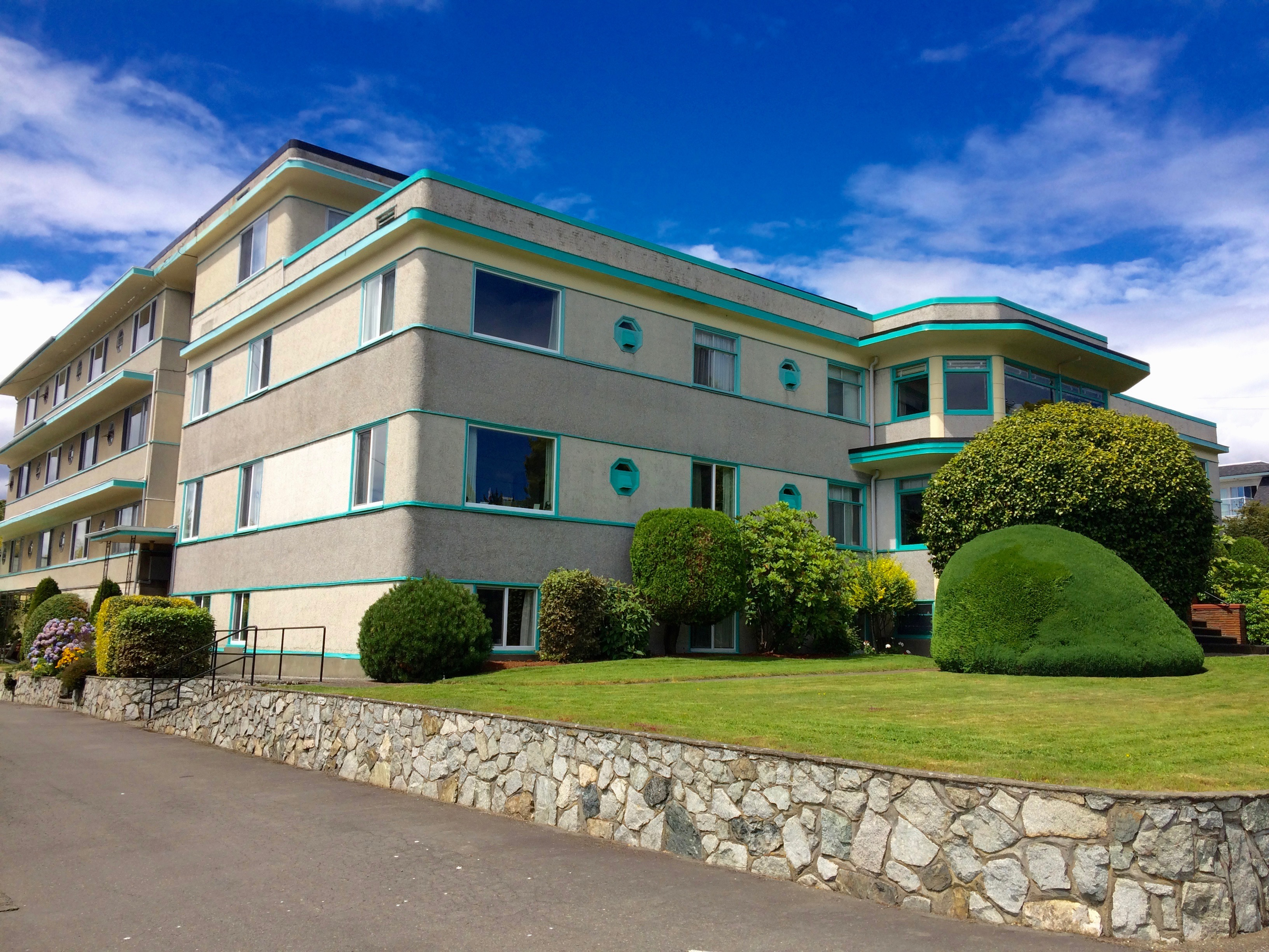 Street view of Beacon Lodge Apartments.